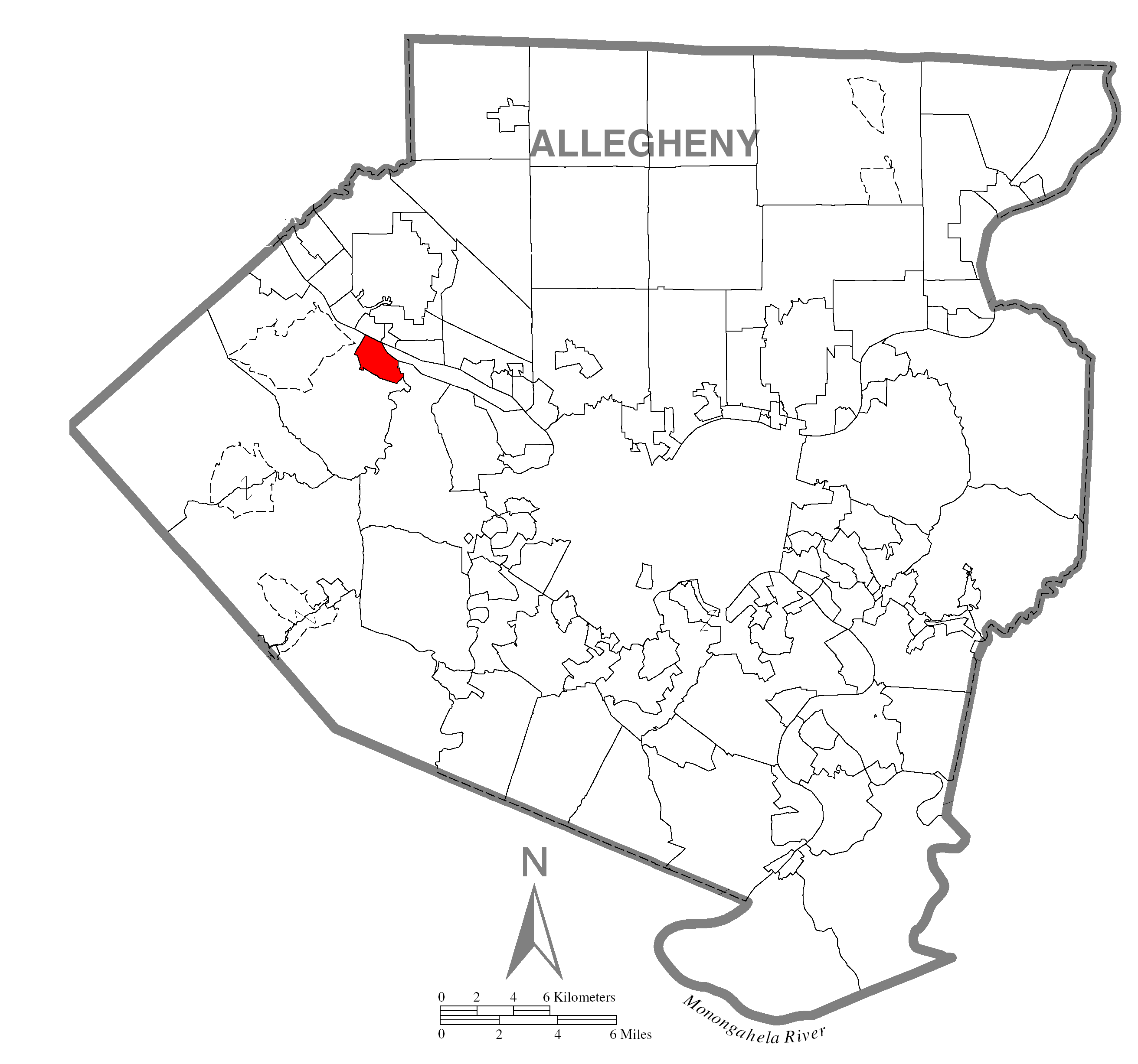 A map of Allegheny County showing Coraopolis, Pennsylvania (alternate) highlighted on the map.